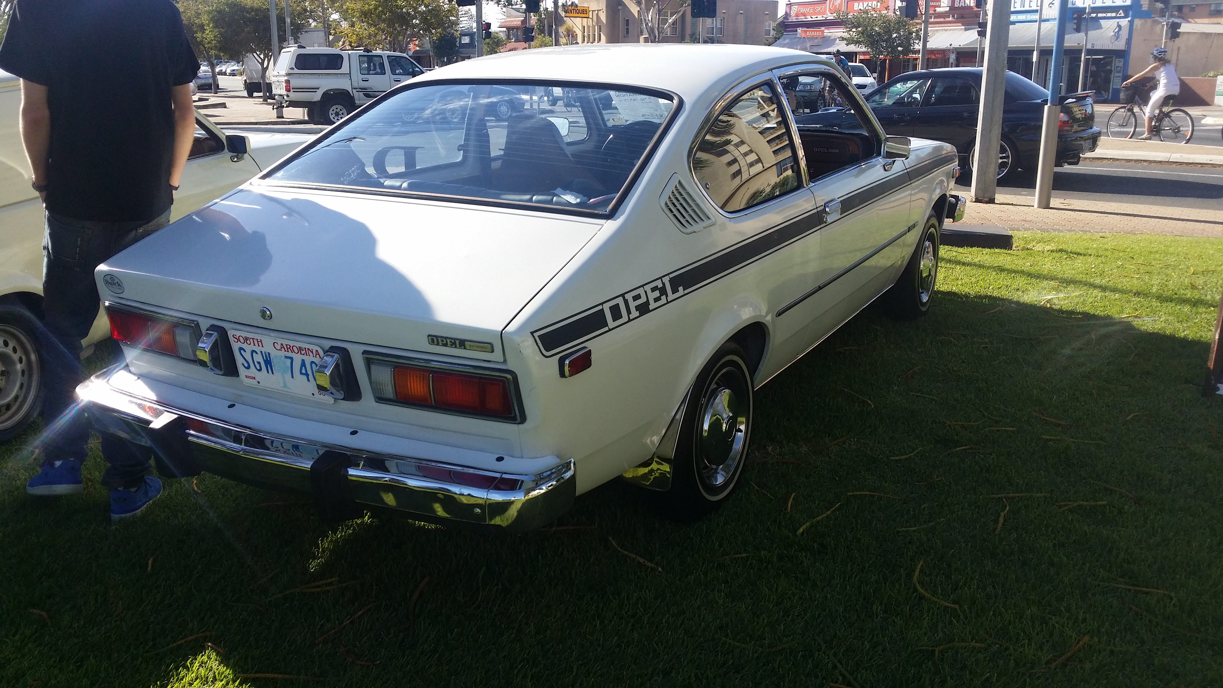 I couldn't believe my eyes when I saw this!! I knew they existed, but I never thought I'd ever see one, let alone seeing one here! As we all know, these were a rebadged Isuzu Gemini, built in Japan and sold in the US as the Buick Opel, in sedan and coupe bodystyles. We saw them in Australia as the Holden Gemini. I also noticed the little 'Isuzu' badge was still displayed on the grill, even though the 'Opel' name was clearly displayed everywhere else and then there was a little sticker on the back saying 'Buick'. There was also a badge on the back saying 'Opel - By Isuzu'. This one was in fantastic condition! Not sure who imported it in, but this needs to be kept in a safe place! The ultra large US style bumpers give this a more bulkier look about it.